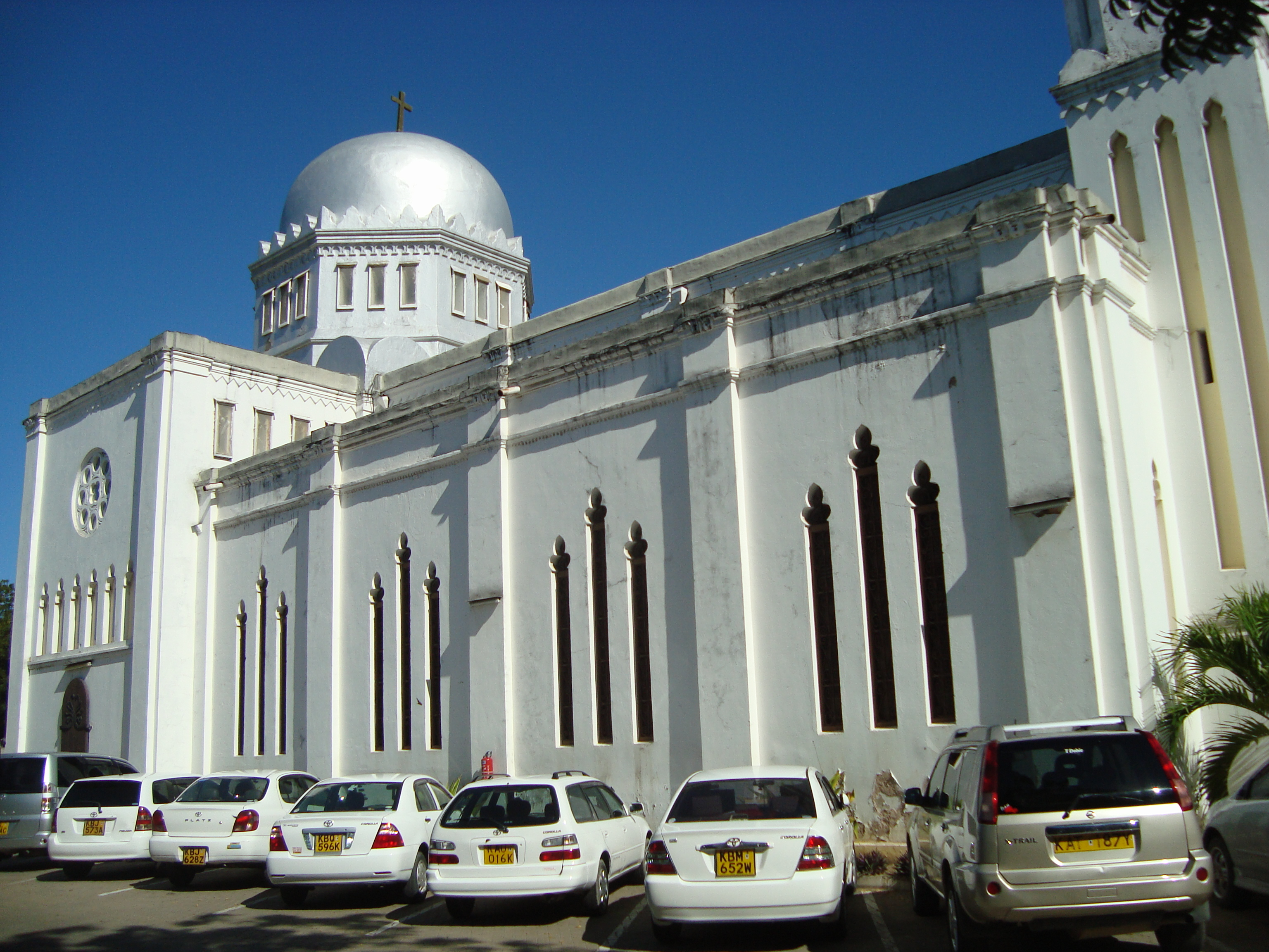 The Diocese was established in 1898. It is the oldest Diocese in East and Central Equatorial Africa. It has 50 parishes, 50,000 Christians. It covers six administrative districts mostly terrain. HIV/AIDS and poverty are the main challenges to evangelism.